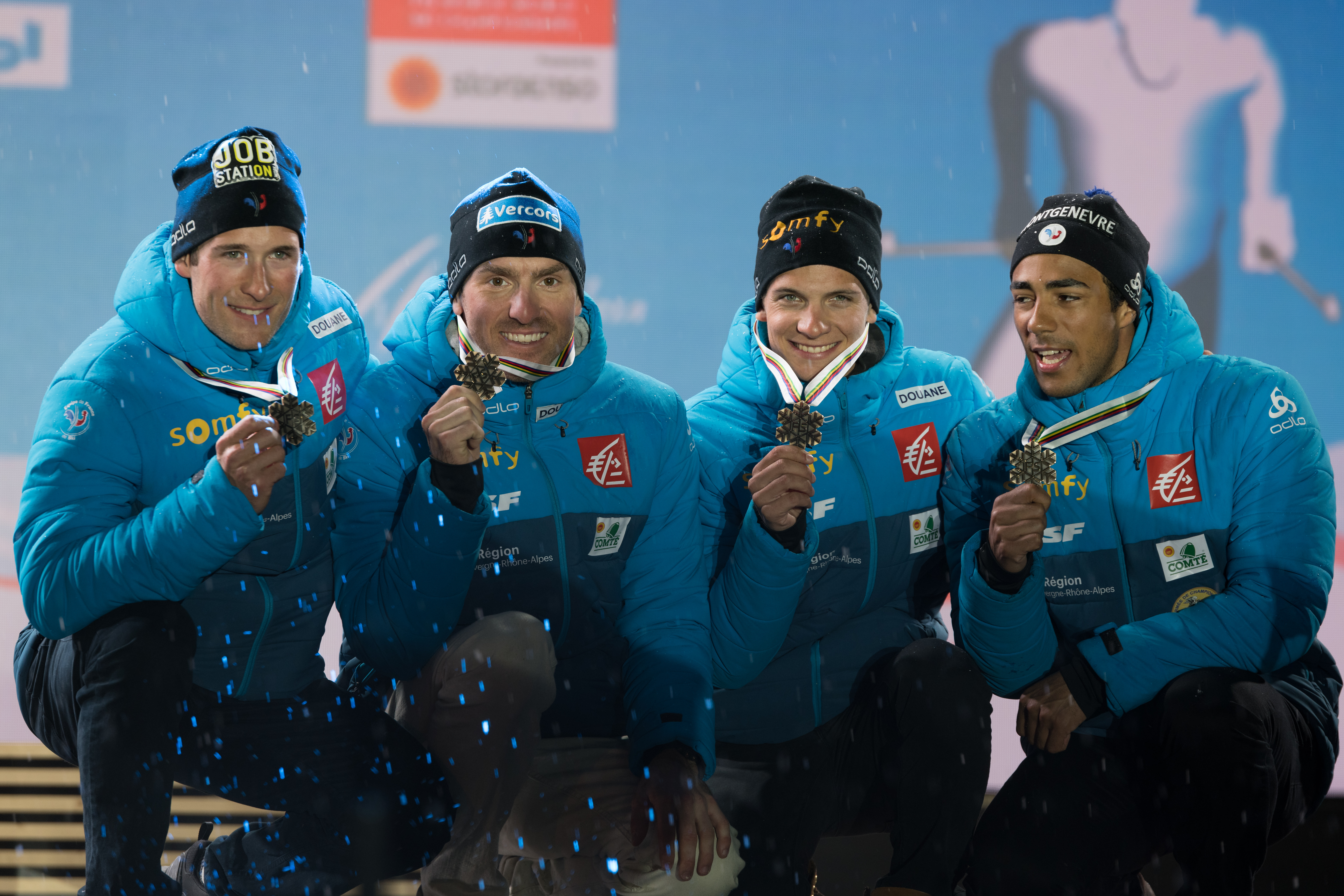 FIS Nordic World Ski Championships Seefeld 2019 - Medal Ceremony at the Medal Plaza. Picture shows Adrien Backscheider (FRA), Maurice Manificat (FRA), Clement Parisse (FRA), Richard Jouve (FRA).